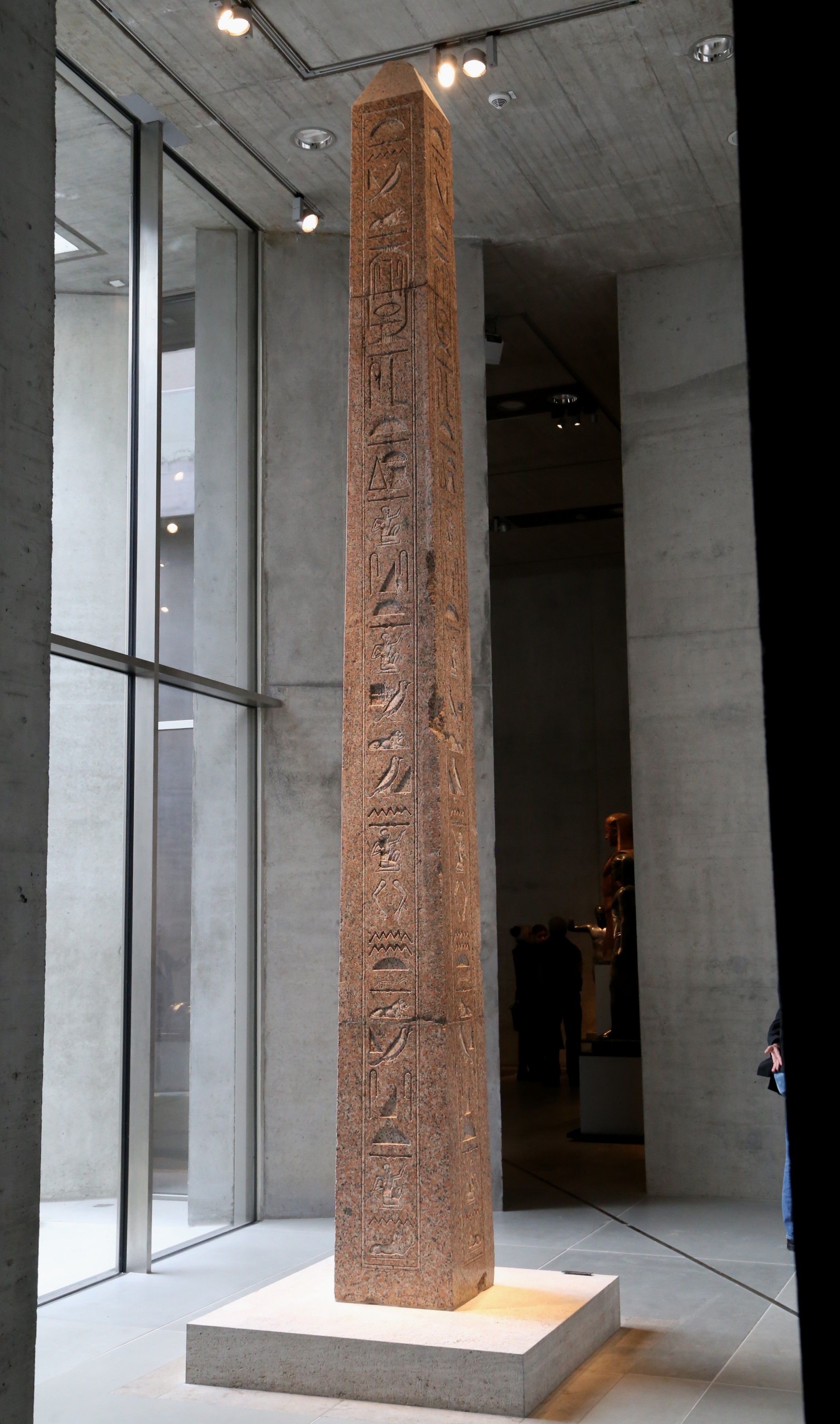 Obelisk des Titus Sextius Africanus, Rom, 50 n. Chr., Rosengranit